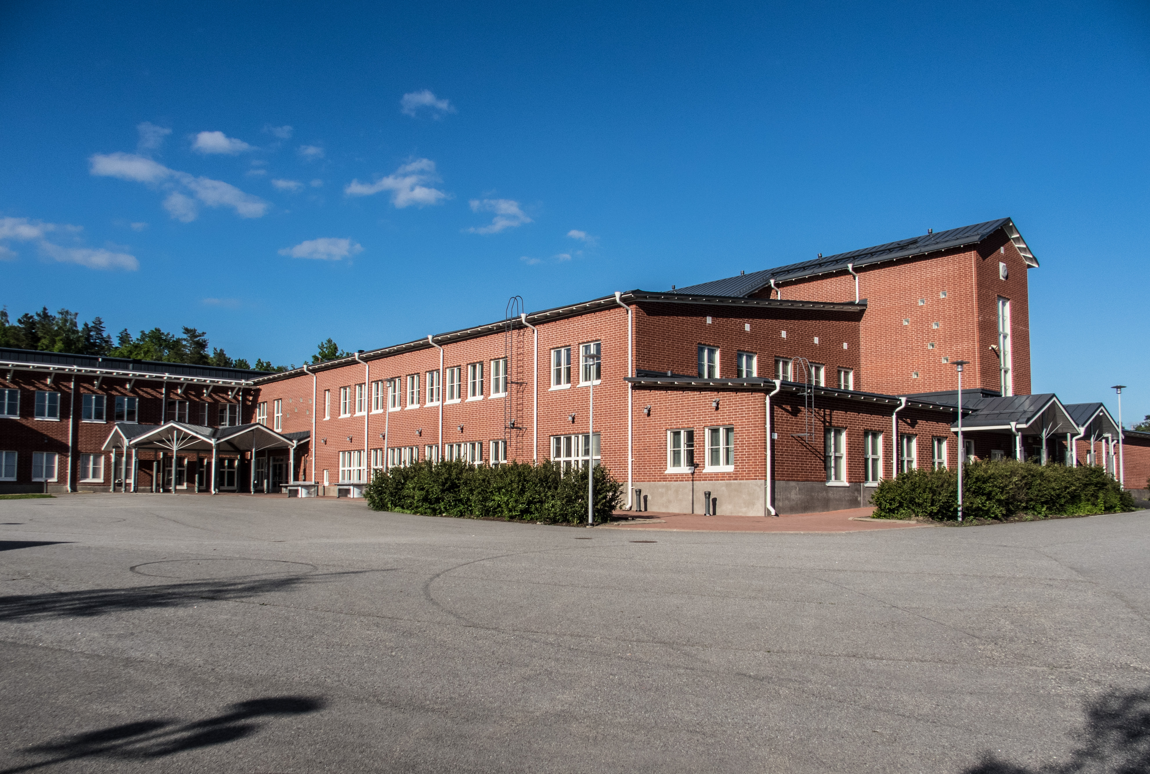 School in Littoinen, Kaarina, Finland.